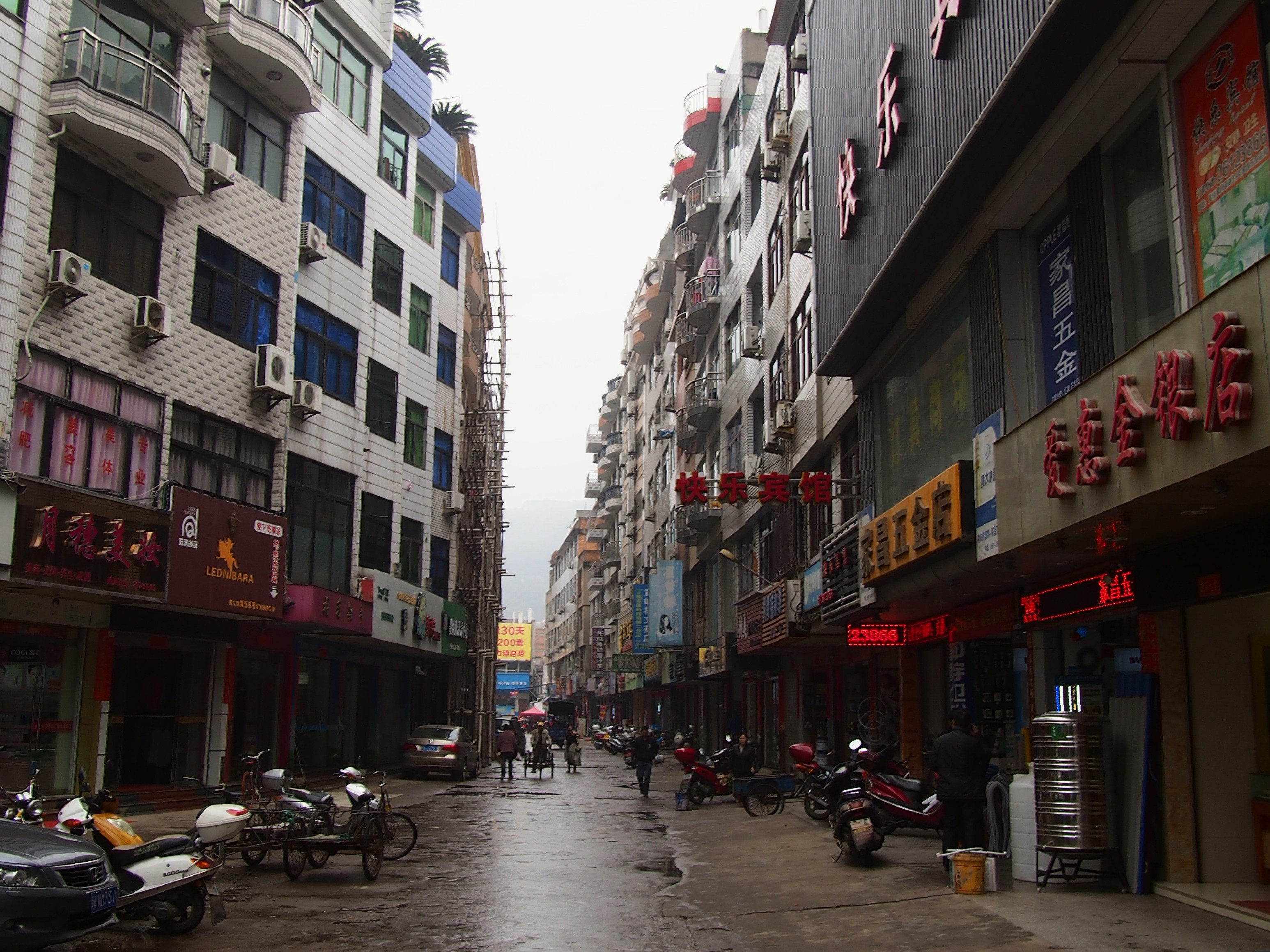 黄岐镇 - Huangqi Town - 2016.03